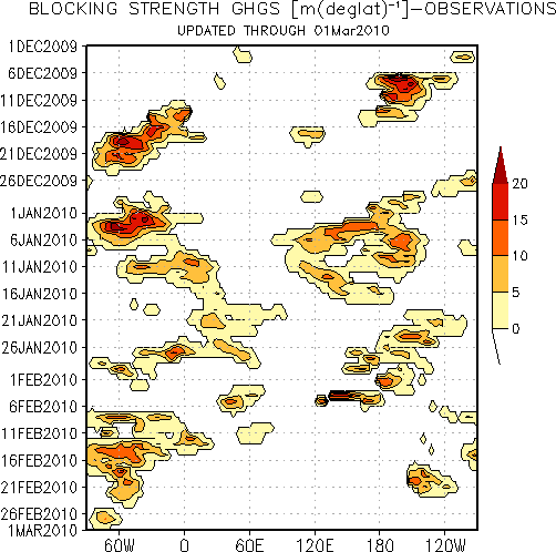 All colored regions in the Hovmöller plot depict regions where the flow is blocked according to the blocking index. [1] The color scheme denotes the strength of the blocked flow.